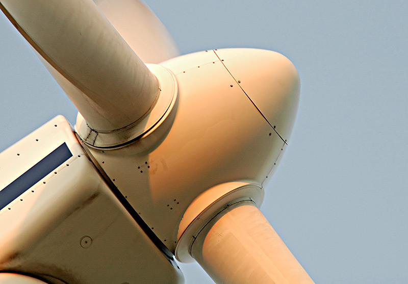 This image shows a close-up of a wind wheel.